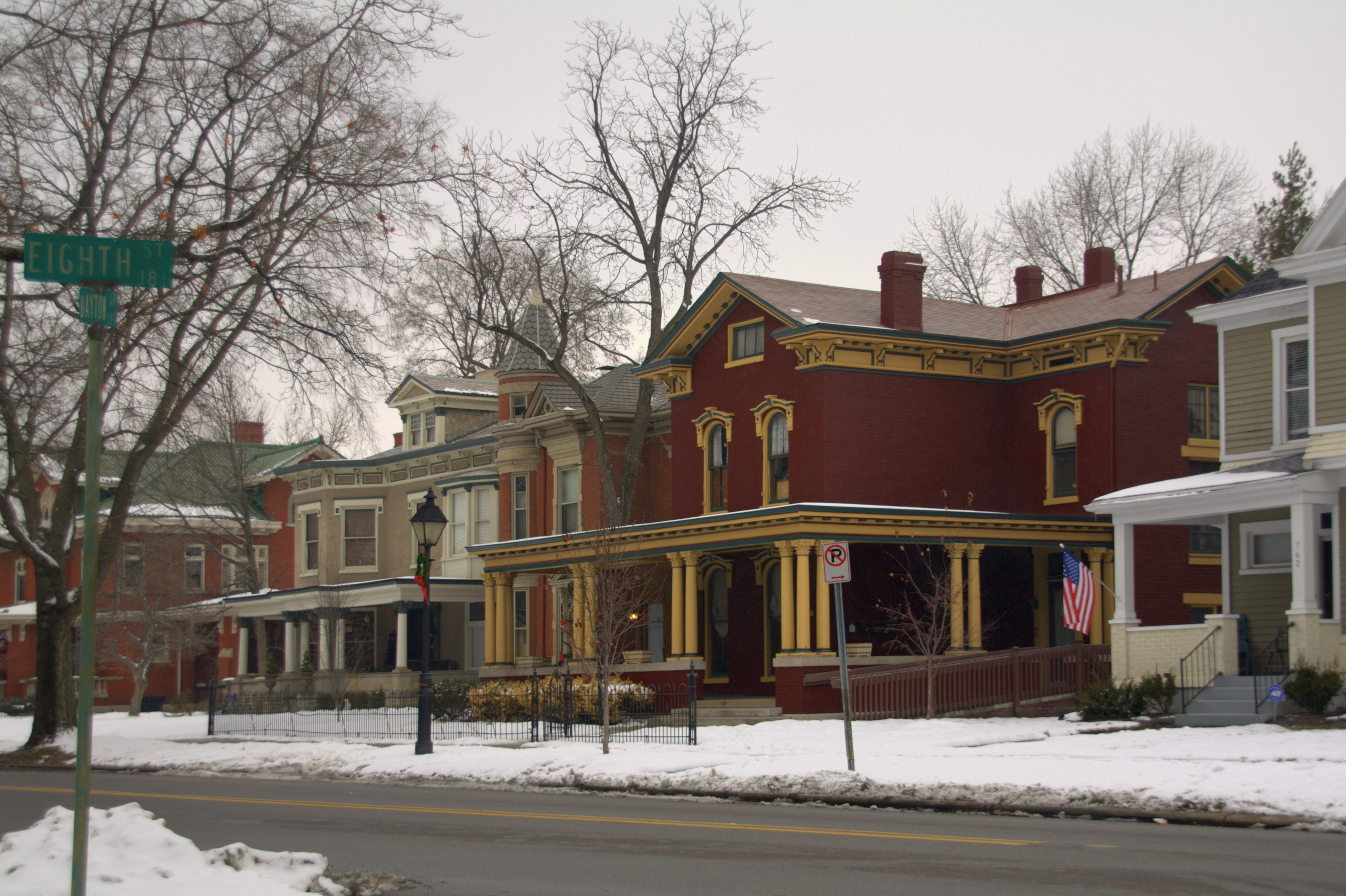 Dayton-Campbell Historic District in Hamilton, OH. Photo by Greg Hume